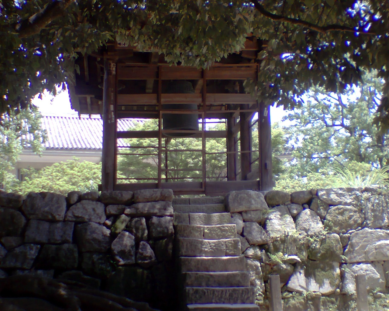 This photograph is the bell (ja : 梵鐘) on a temple named 'Kanzeonji (Kanzeon-ji , ja : 観世音寺)' which in the Dazaifu city, Fukuoka prefecture, Japan.